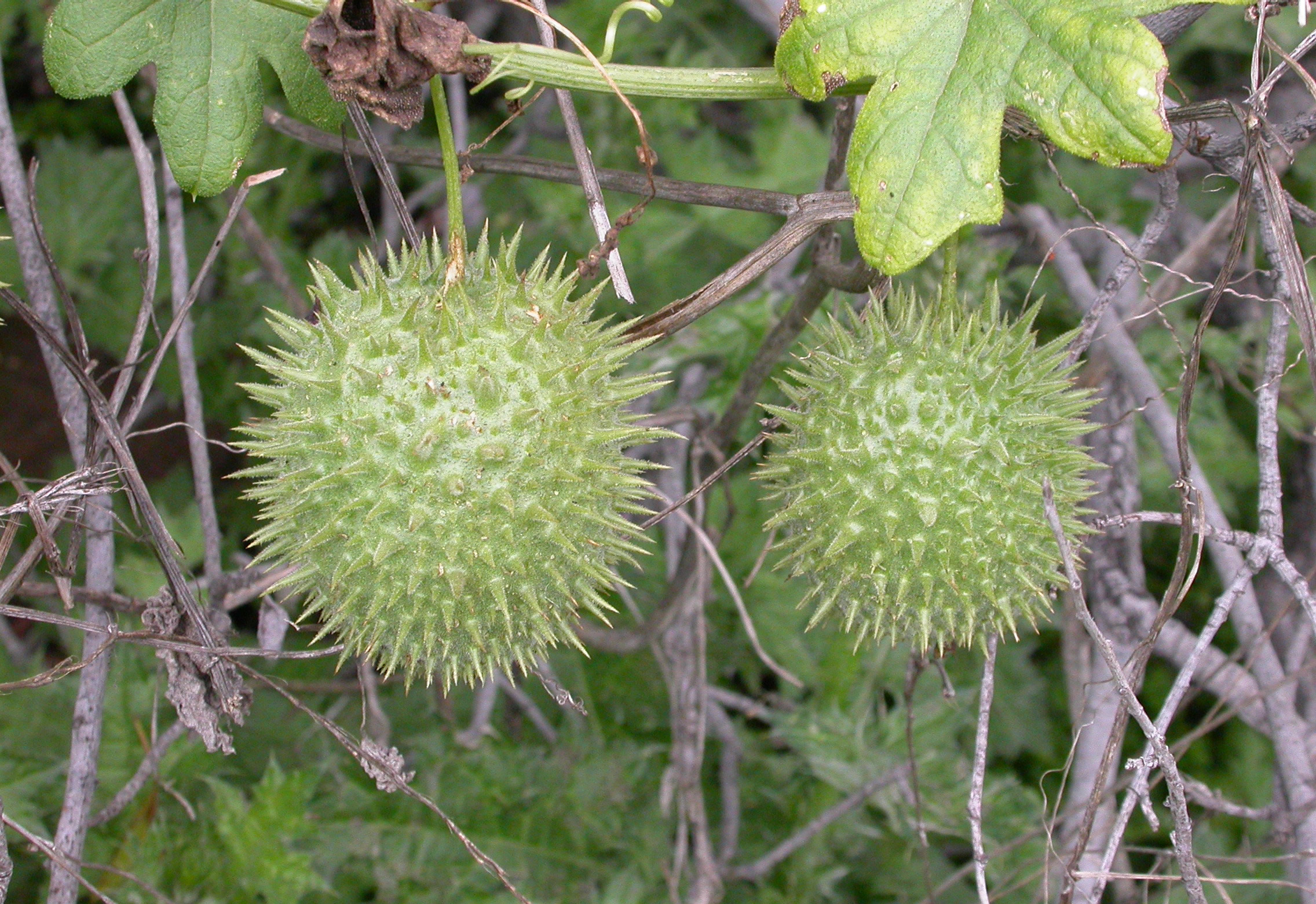 Marah macrocarpus — Wild cucumber. Plant of California chaparral and woodlands habitats. In the Voorhis Ecological Reserve at California State Polytechnic University, Pomona, California.